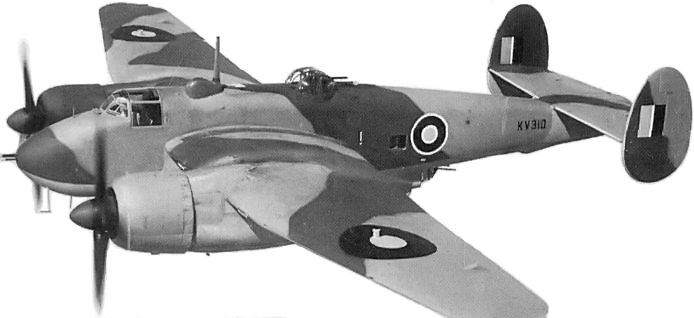 Original photograph taken by an employee of the British government. Image found on